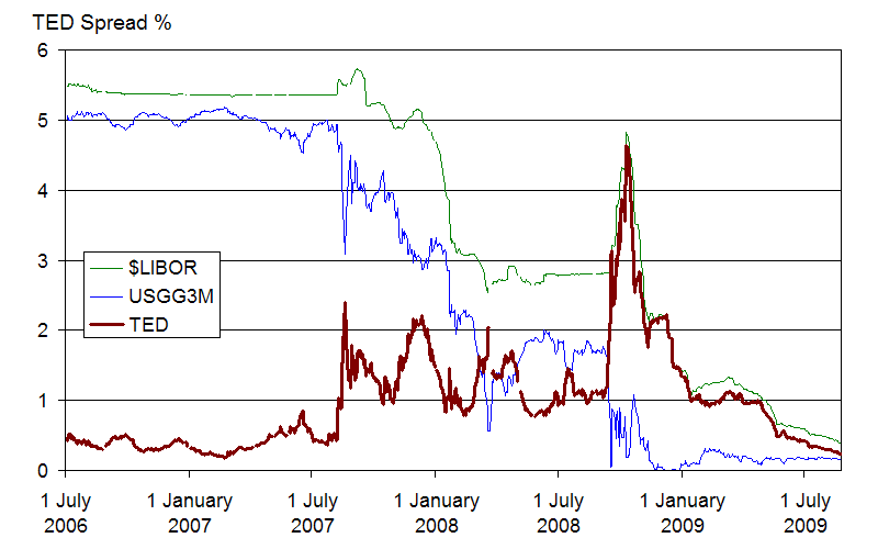 TED spread, an indicator of credit risk, from 2006-7-1 to 2009-8-24.